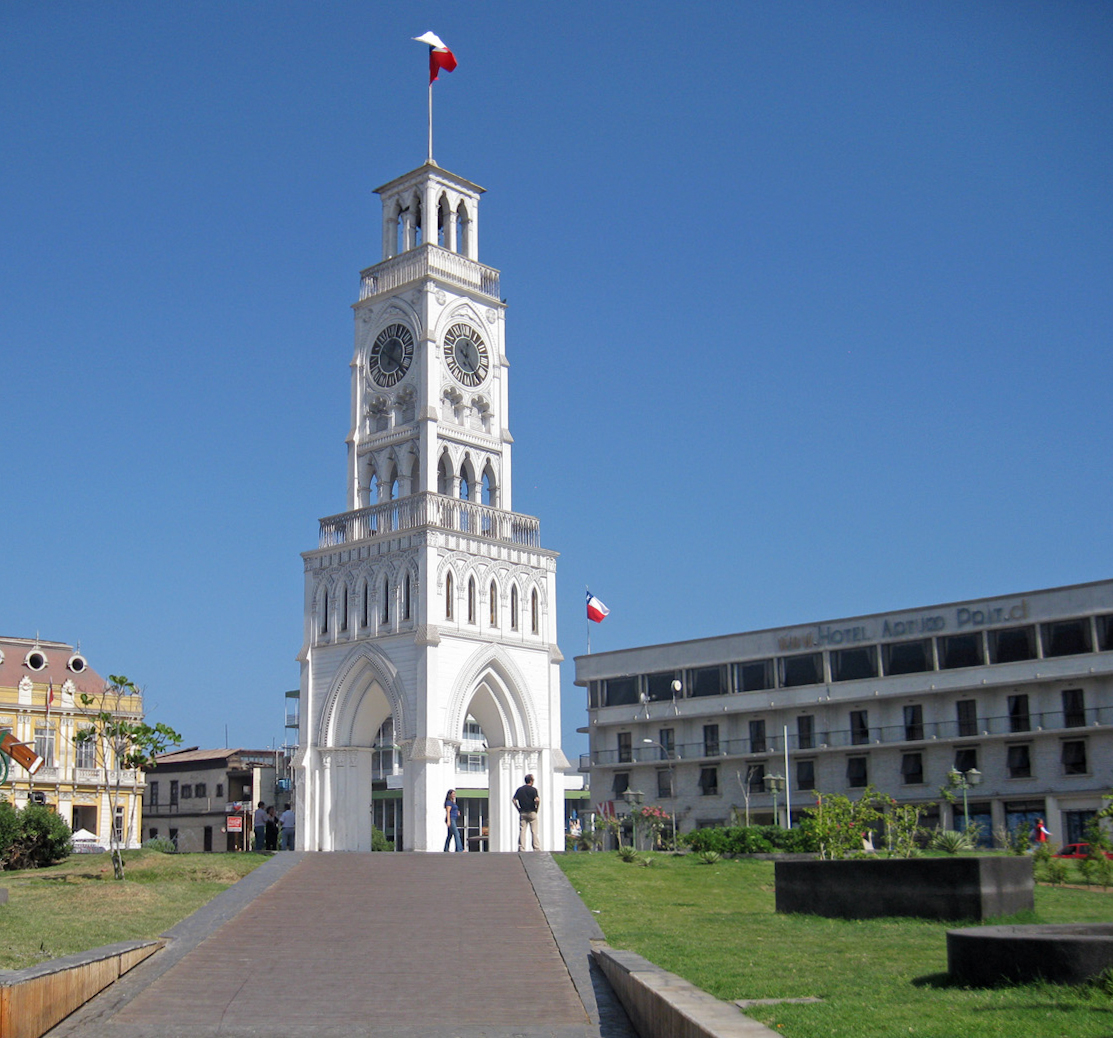 The clock tower on Prat Square in the city of Iquique, Chile.